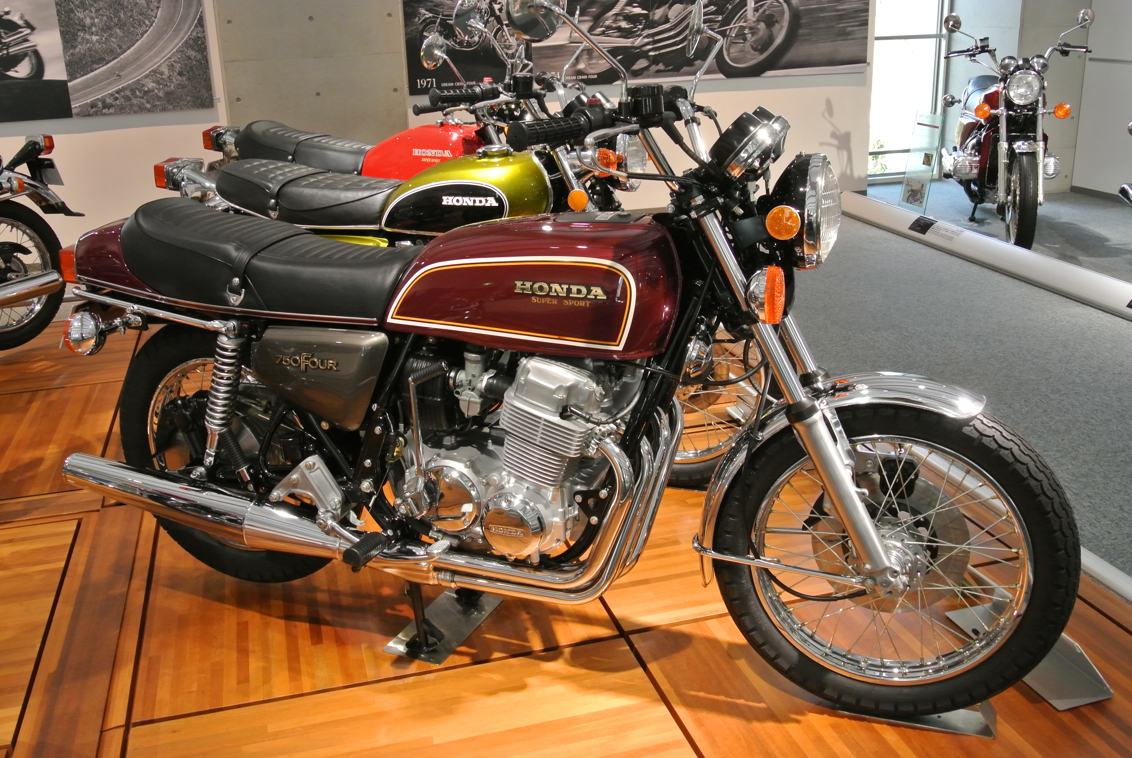 Honda Dream CB750 Four in the Honda Collection Hall.